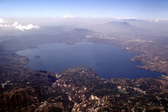 The 8 x 11 km wide Ilopango caldera fills the center of the image in this view from the ESE. Fresh, light-colored exposures of the Tierra Blanca Joven formation in the foreground associated with the latest caldera-forming episode were in part created by landsliding during the January 2001 earthquake. The capital city of San Salvador lies beyond the lake, between it and San Salvador volcano (upper right). The Santa Ana volcanic complex lies beyond San Salvador volcano on the right horizon.